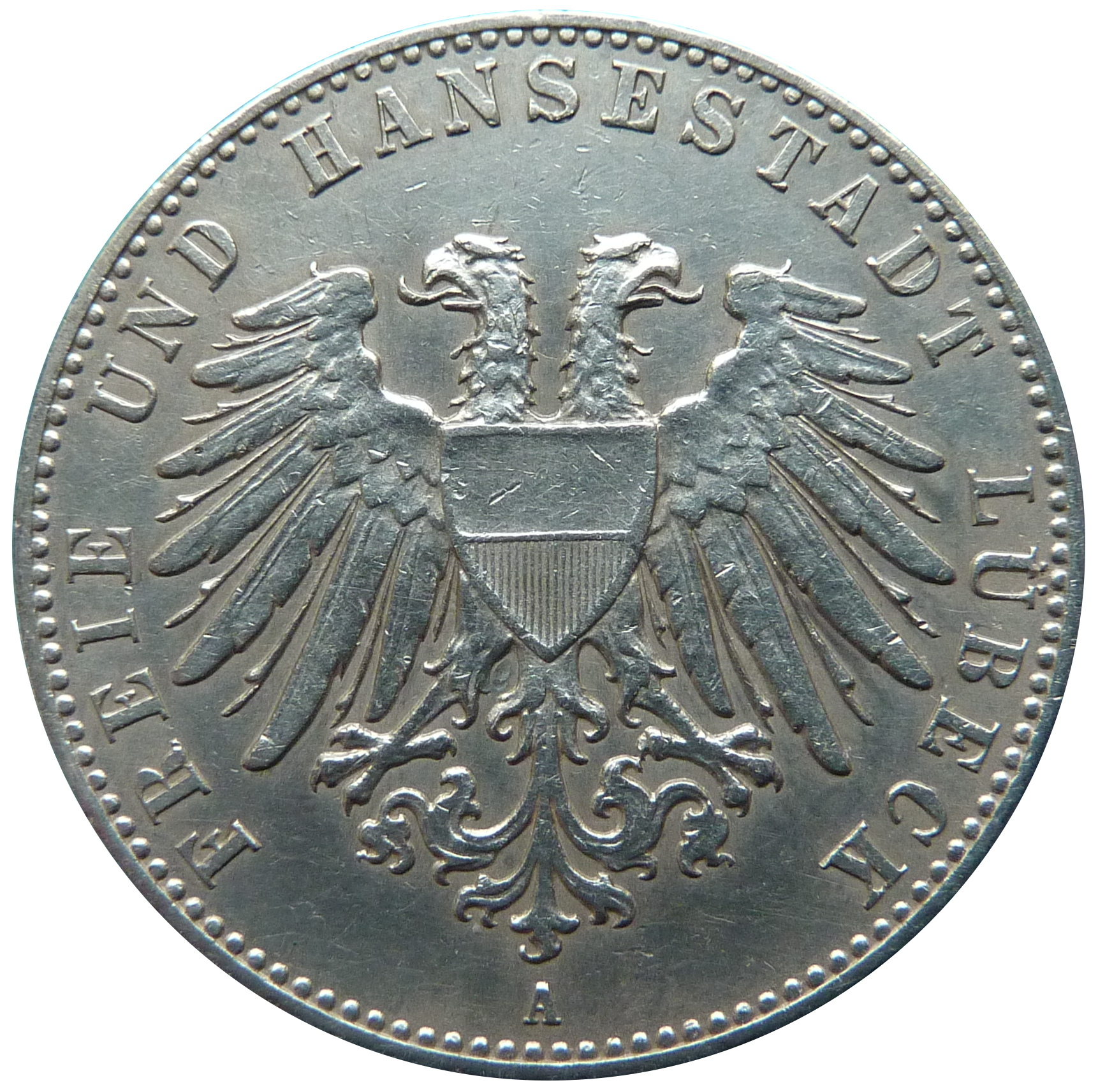 Averse of the 2-Mark-coin of Lübeck